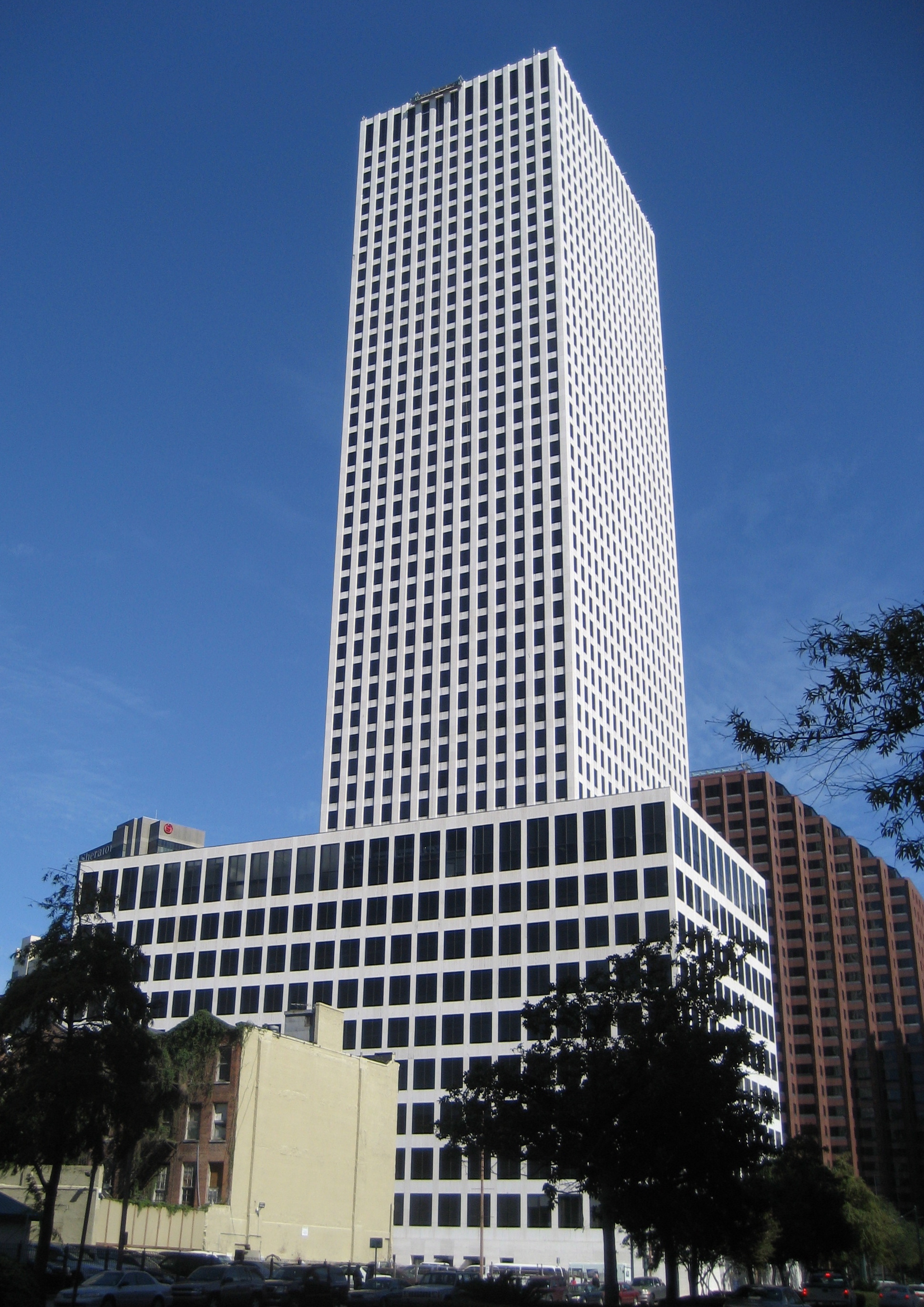 New Orleans Central Business District. View of One Shell Square building from back on Poydras.